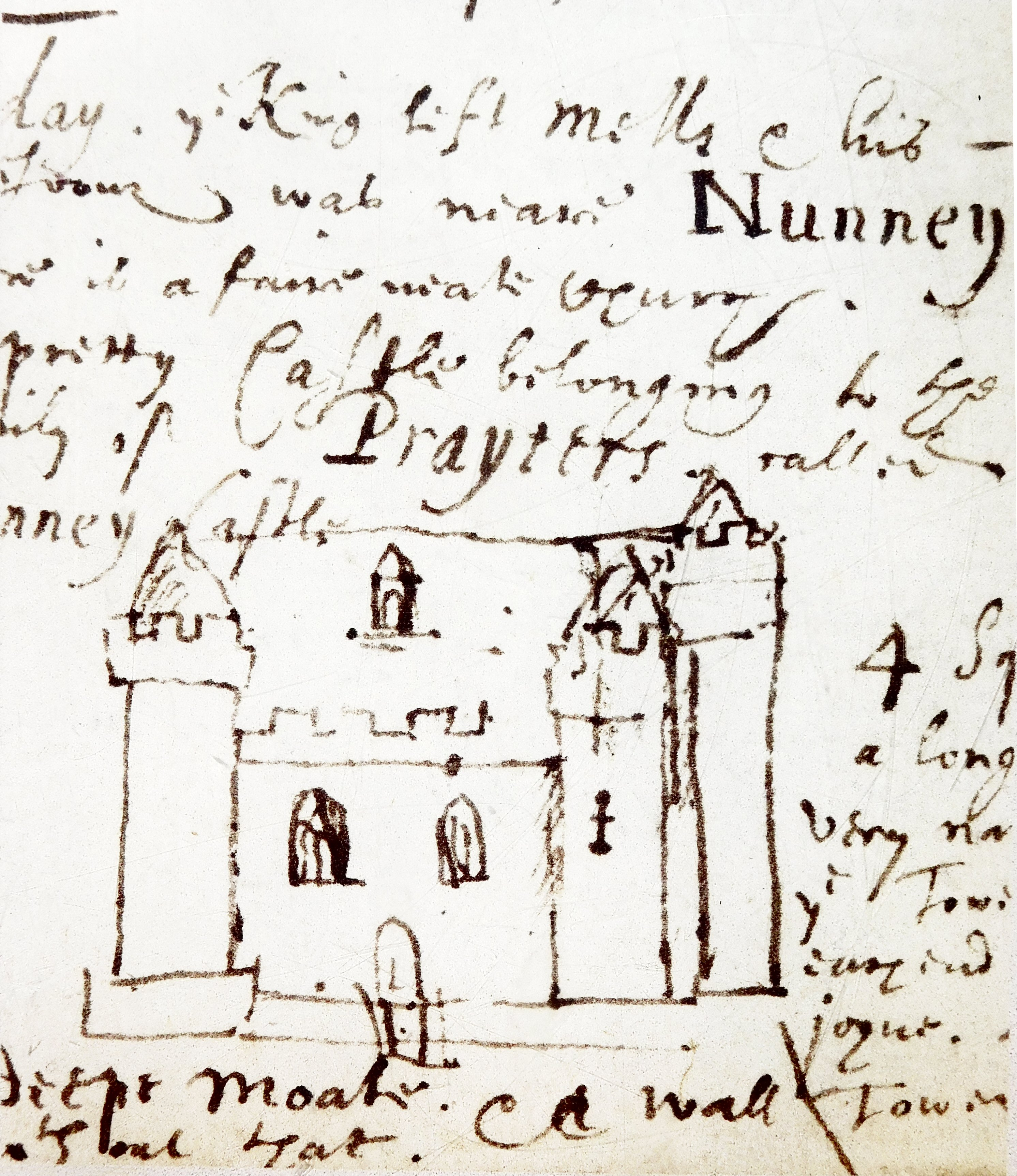 Drawing of Nunney Castle, Somerset by a royalist officer in the English Civil War, Richard Symonds